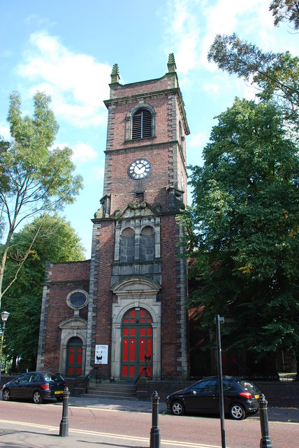 Parish church of St Edmund, King and Martyr, Castle Street, Dudley, West Midlands, seen from the west